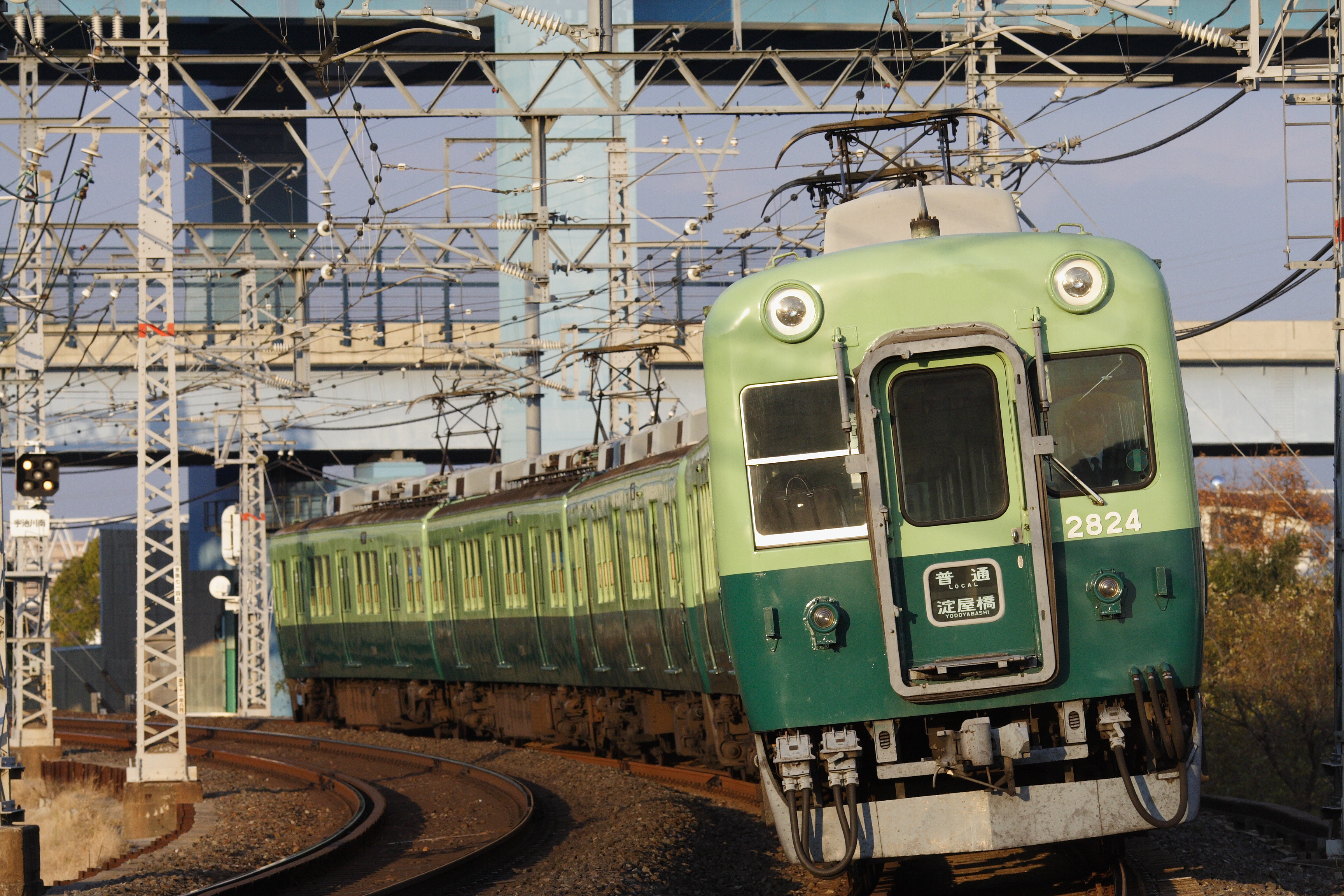 京阪電鉄 2600系電車 / Series 2600 electric car of Keihan Electric Railway Company